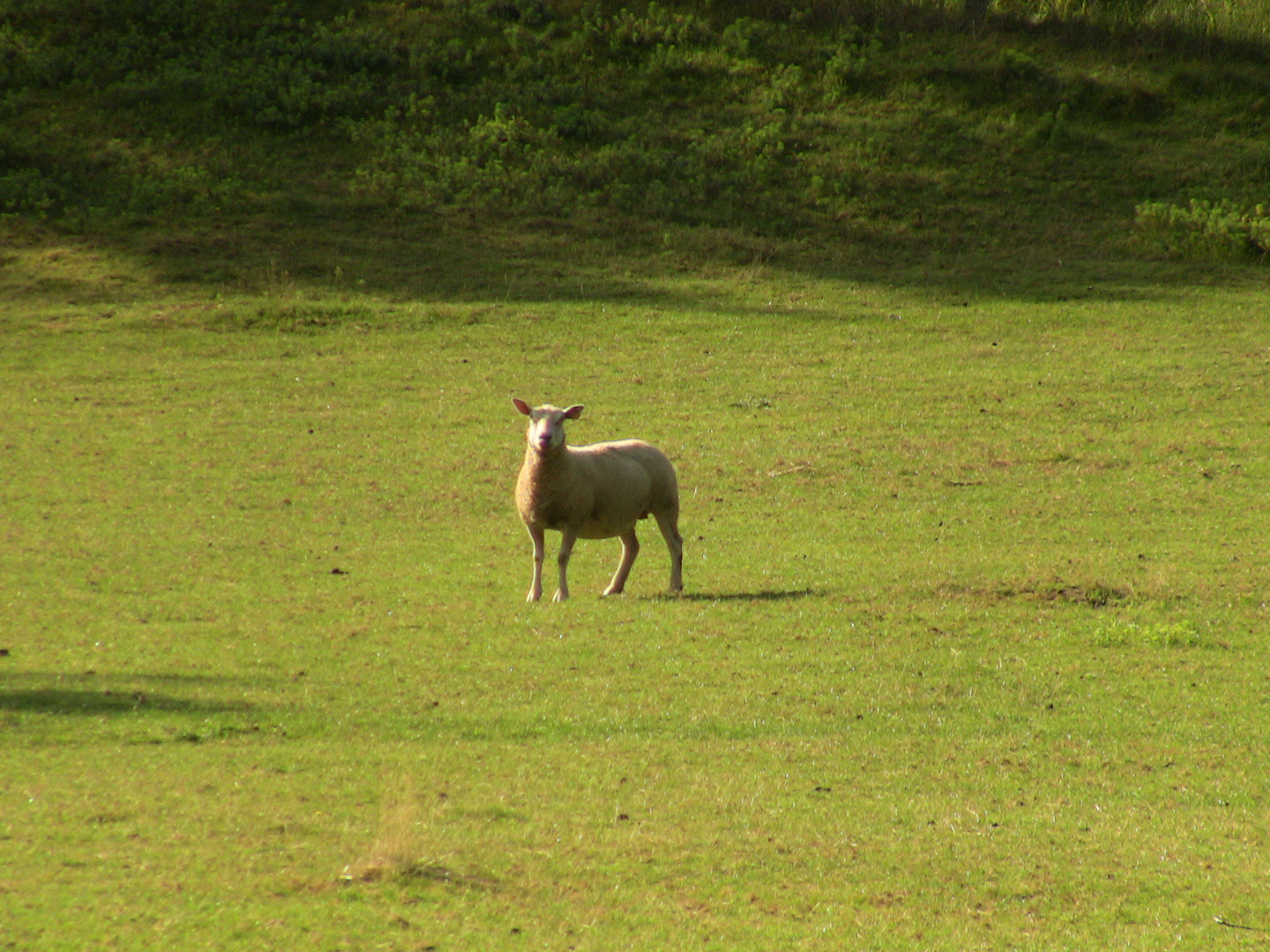 A sheep, near the area of Planoise, in Besançon (Doubs, France)